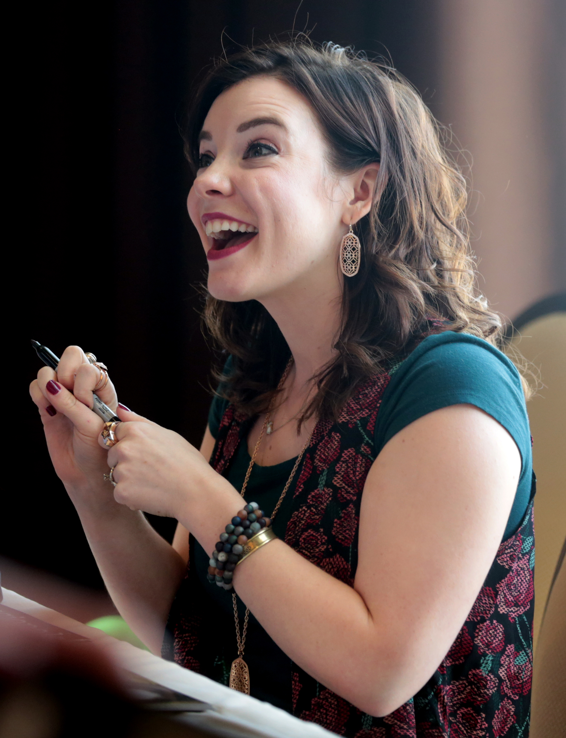 Cherami Leigh speaking at an event in Phoenix, Arizona.